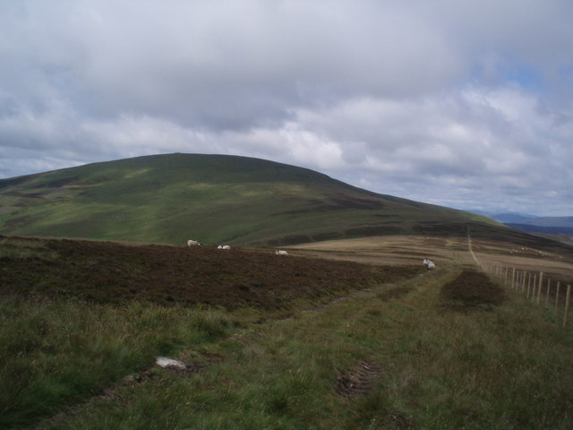 Long Goat, looking towards Cat Law The fence line runs from Long Goat towards Cat Law. a landrover track runs parallel. A mix of heather and grass in equal amounts is grazed by sheep.